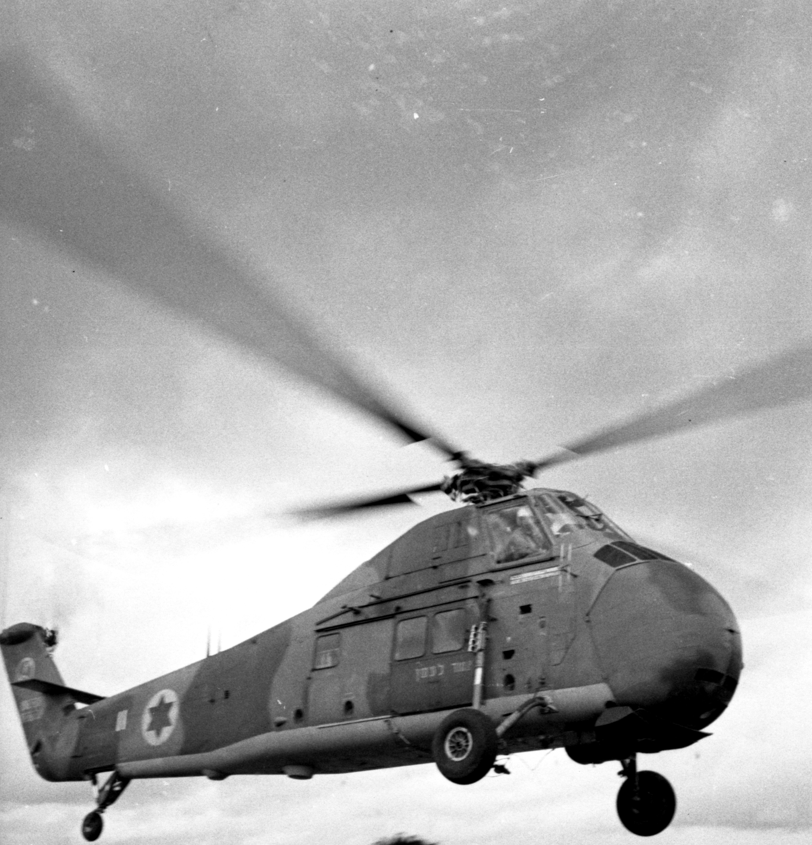 Israeli Air Force Sikorsky S-58 (1967)